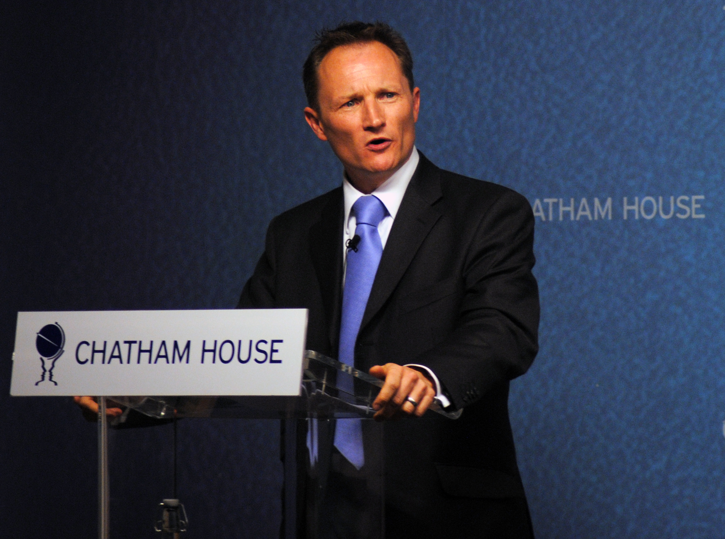 Syria: The International Response, 5 September 2013 cht.hm/18zLSQh